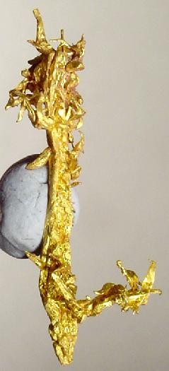 Gold Locality: Nightingale District, Pershing County, Nevada, USA (Locality at ) An AESTHETIC and SUPERB, arrow-like gold thumbnail of lustrous spinel-twinned gold crystals from the Nightingale District of Nevada. 2.0 x 0.7 x 0.4 cm